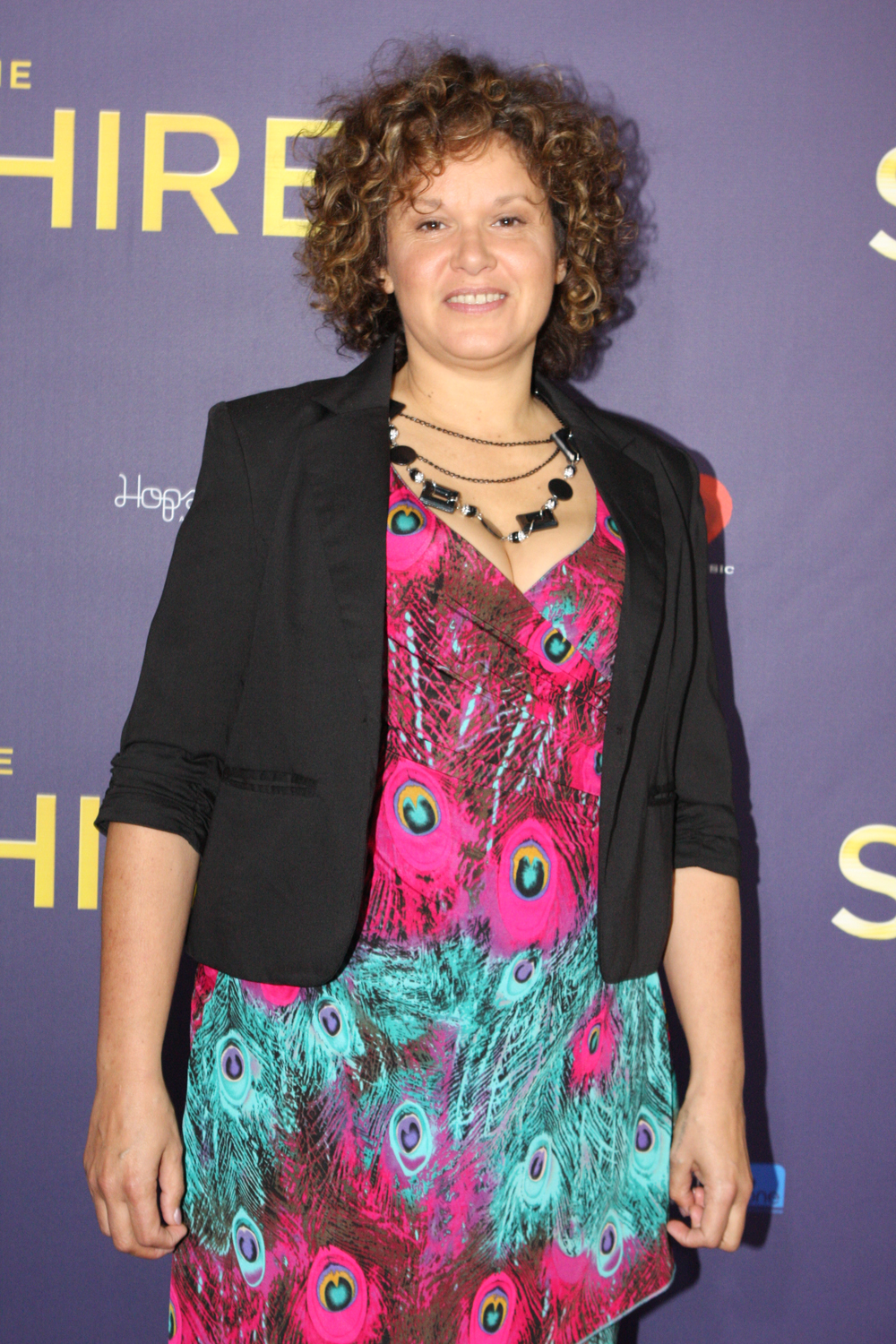 Leah Purcell at The Sapphires movie premiere at State Theatre, Sydney, Australia